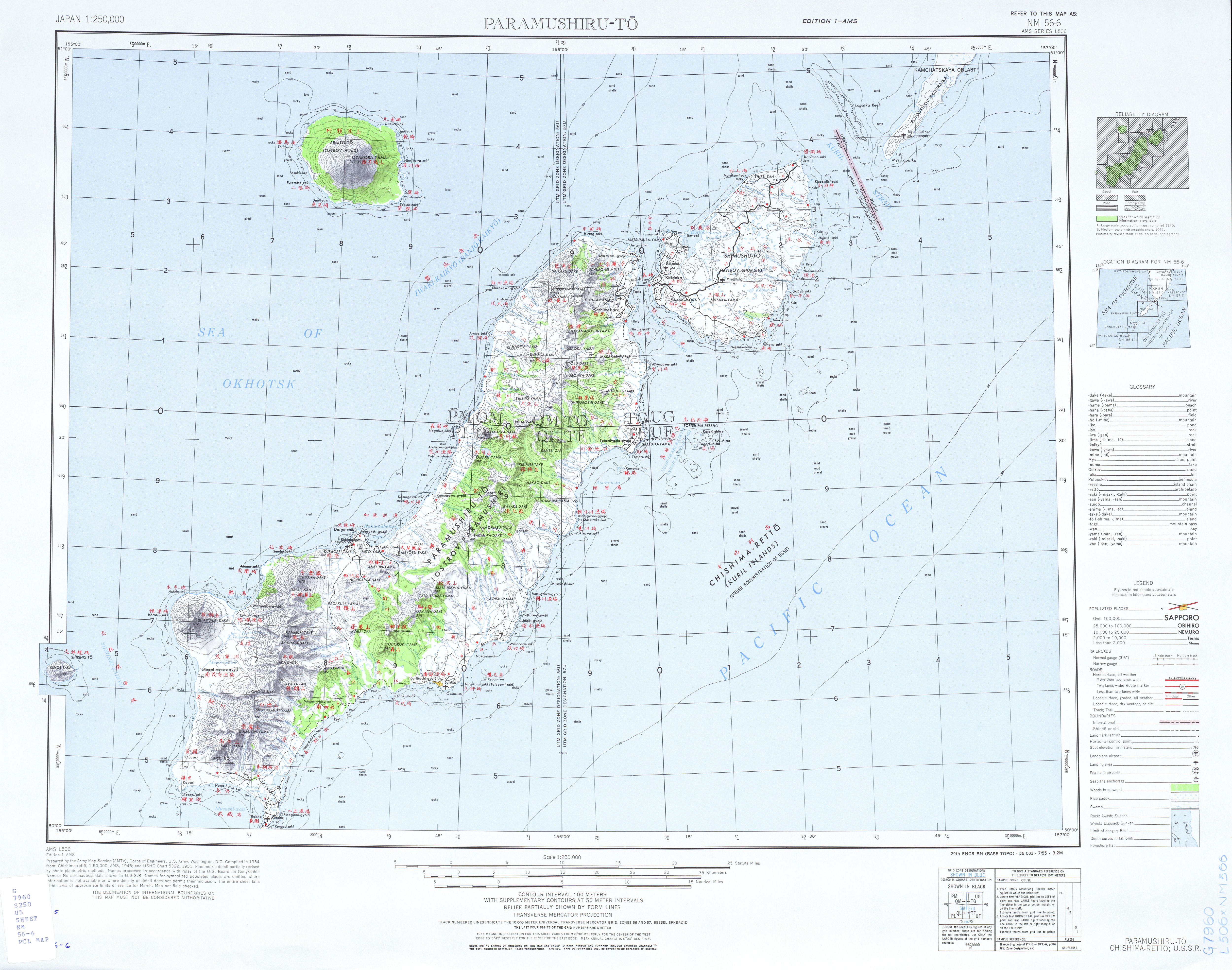 List from Japan AMS Topographic Maps. Series L506, U.S. Army Map Service, "compiled" in 1954; Cape Lopatka on the Kamchatka Peninsula, the Kuril Strait, and the islands, from north to south, of Atlasov, Shumshu, Paramushir, and Antsiferov